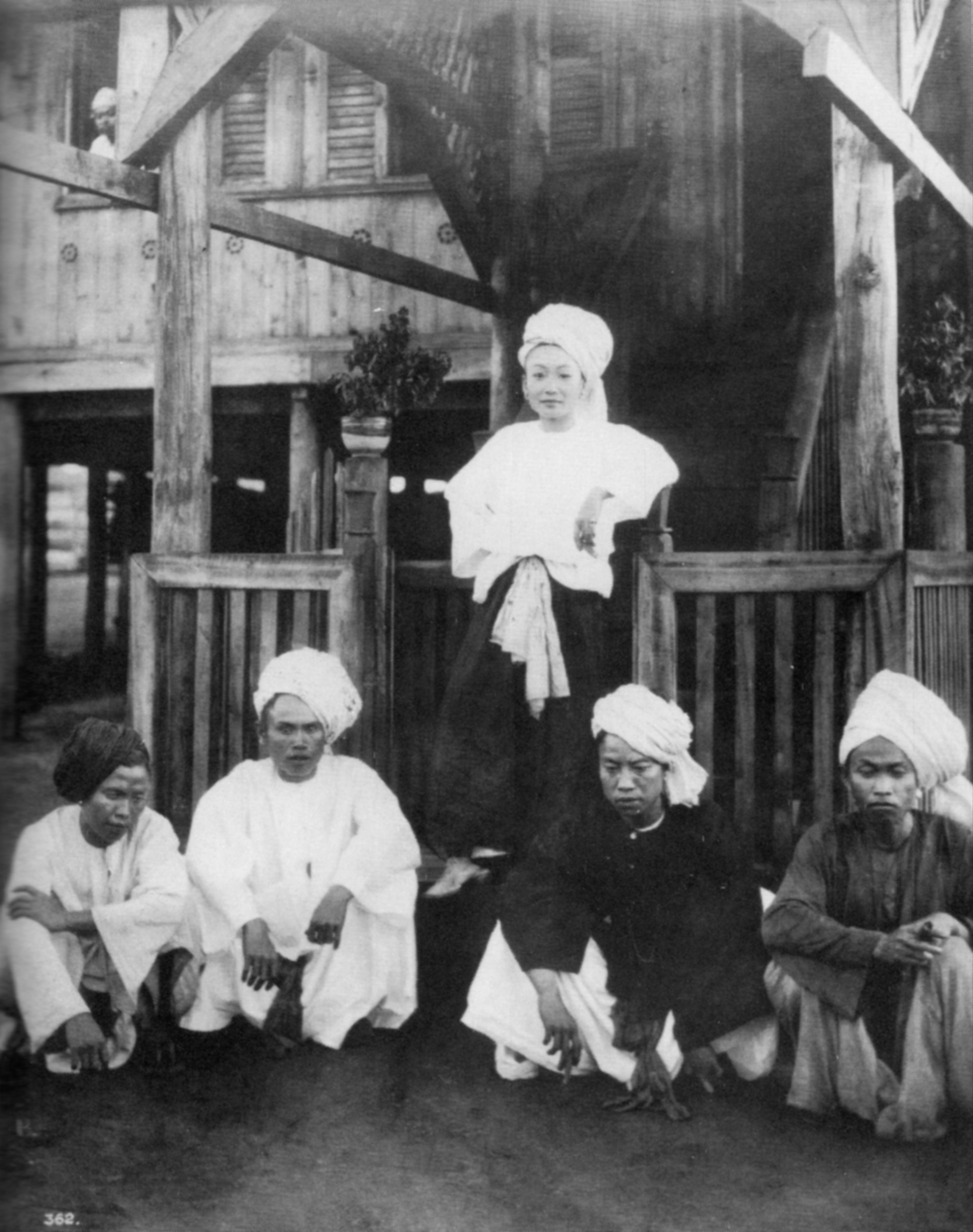 Photographic portrait of Princess Tip Htila